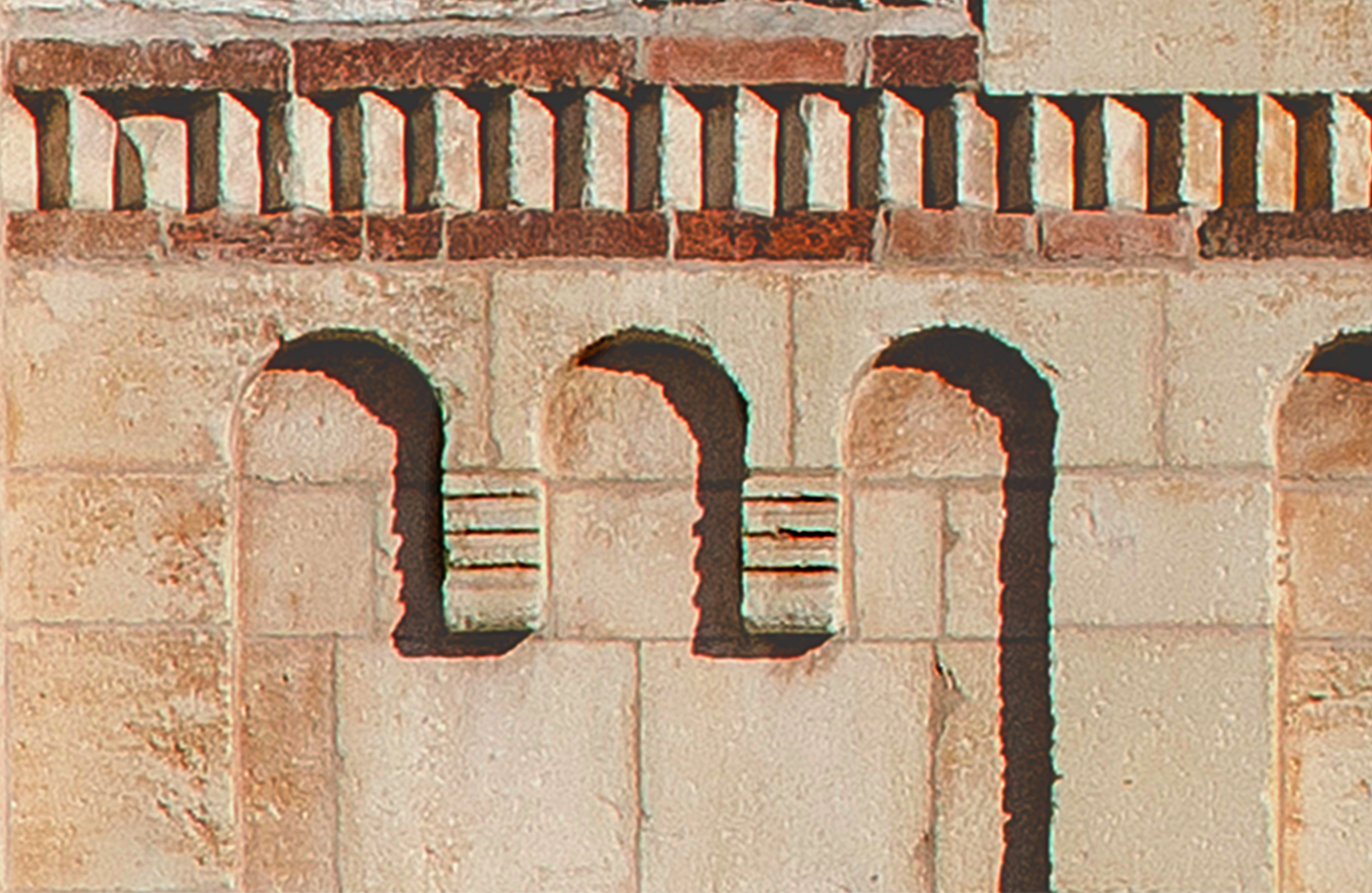 Basilica_di_San_Zeno_02 (crop Rose window) Fregio archetti pensili, peducci e denti di sega - Frise de dents engrenage.jpg Lombard bands and down small corbels, up frieze sawtoots, left and right side lesene.